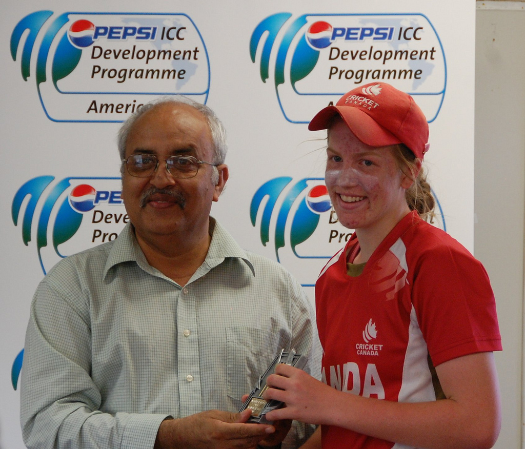 Prseented by Cricket Canada President Ranjit Saini